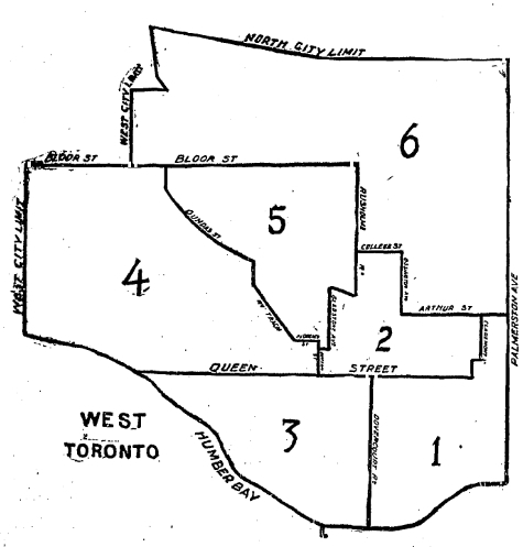 Map of the provincial riding of West Toronto, first used in the Ontario election of 1894.